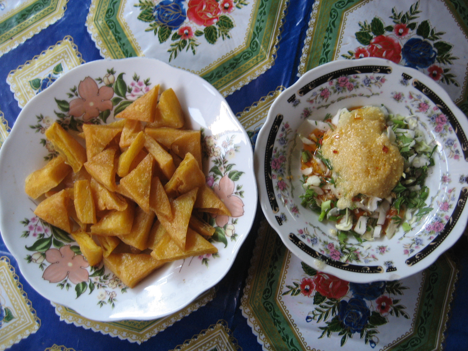 Hnapyan gyaw - "twice fried" tofu fritters with a side salad of cabbage, spring onions, coriander, crushed garlic and sesame paste, peanut oil and chilli oil at a restaurant behind Hpaungdaw U Pagoda, Inle Lake, Shan States, Myanmar. The shopkeeper said,"Foreigners do not eat this kind of food, and Burmese do not come in winter".